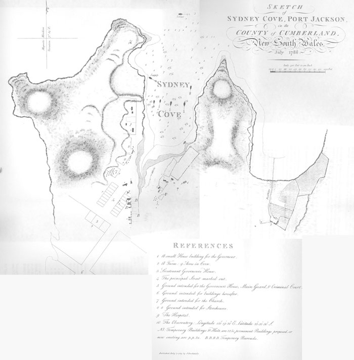 An illustration from The Voyage of Governor Phillip to Botany Bay Original caption: Sketch of en;Sydney Cove